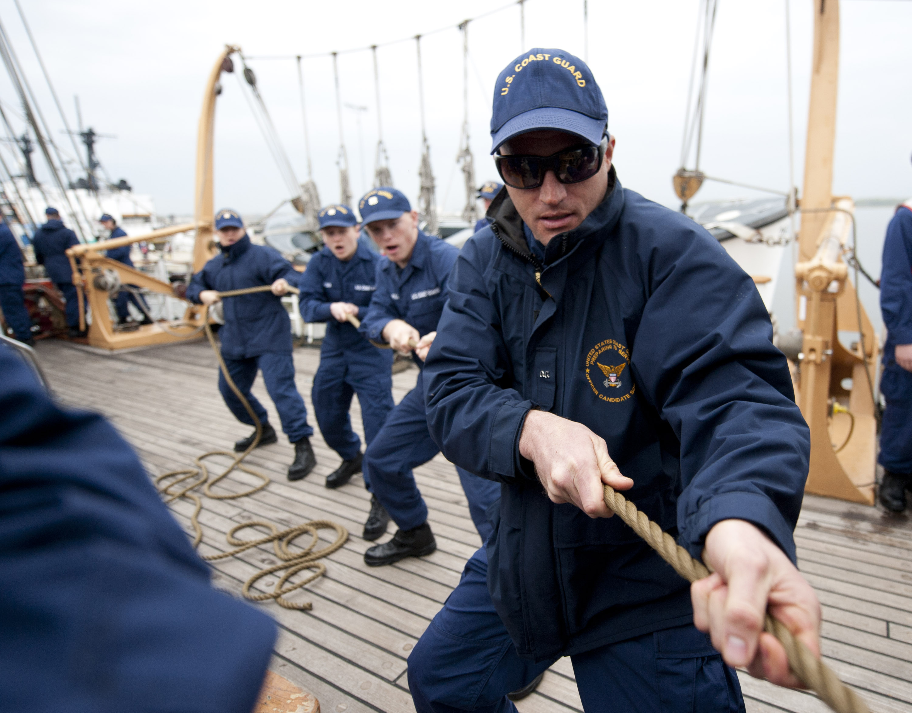 An Officer Candidate leads a group of future Boatswain Mate's in handling a line on the USCGC Eagle's Mizzen Mast.